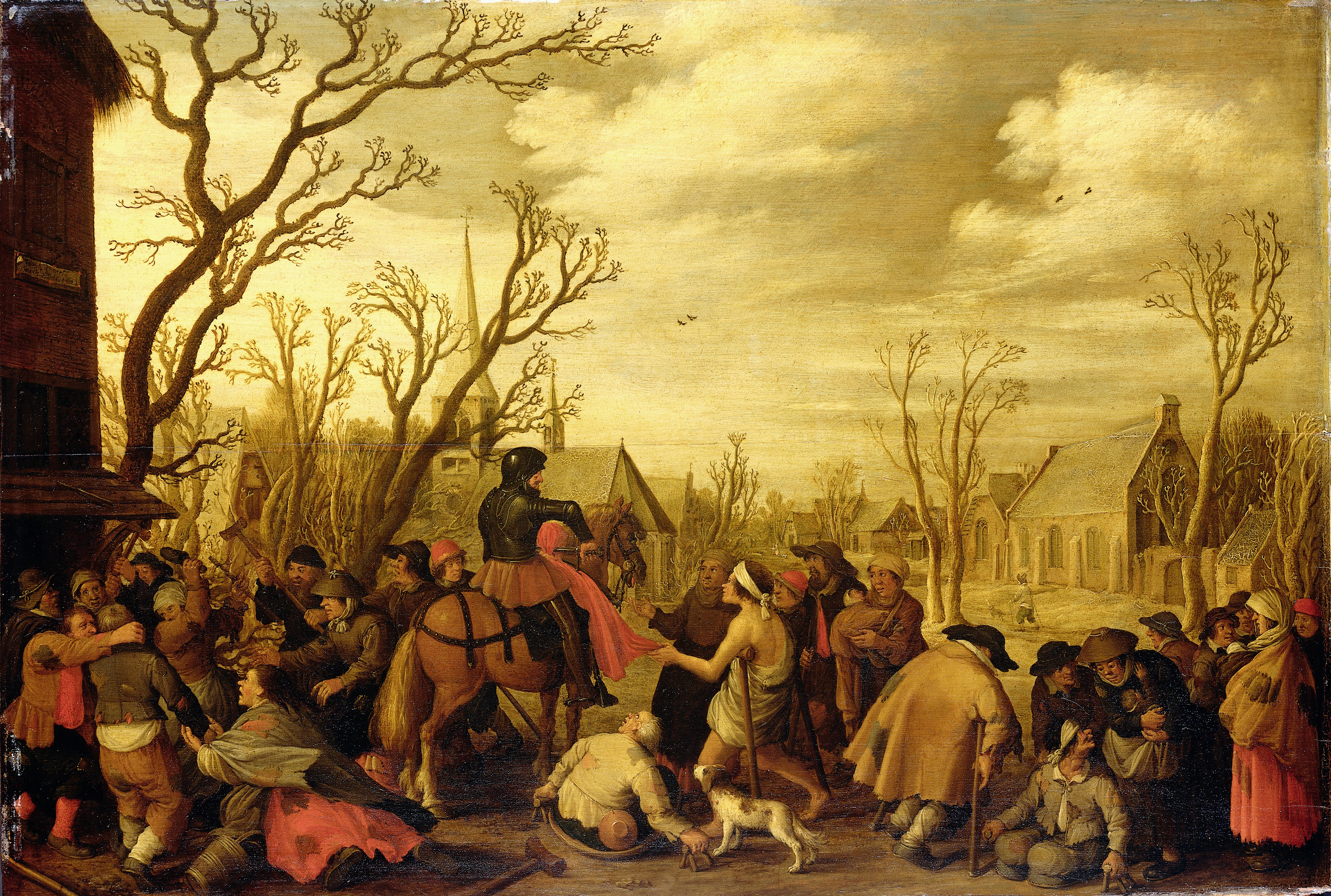 Rural scene with Saint Martin cutting off a piece of his cloak to give to a beggar. He is surrounded by beggars, some of which are fighting. In the background a village with a church, a chapel and other buildings.